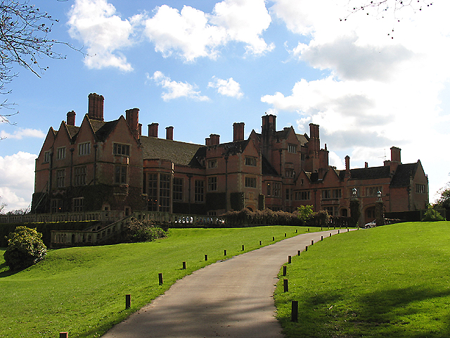 Brockhurst School (Marlston House) The school is situated in the far north eastern section of the grid square. This picture was taken from the north side of the school.